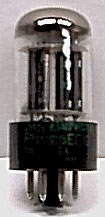 6SN7WGTB vacuum tube, made by Philips 1980s, photo by Eric Barbour